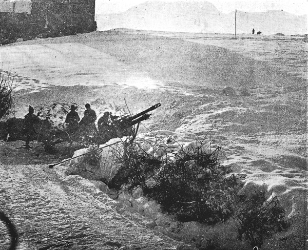 A Southern Rhodesian 25-pounder gun in action near Ripoli, just south-east of Florence in Italy